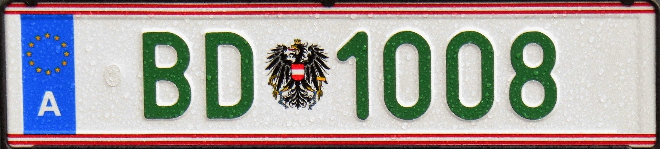 Austria Bus license plate (electric vehicle). BD = Bundesbus Dienst (Federal bus service). License plates for electric vehicles in Austria were introduced in 2017. This particular license plate belongs to an overland bus in Vorarlberg. This bus is one of four electric overland buses (the first ones in the whole country), on duty since February 2020.